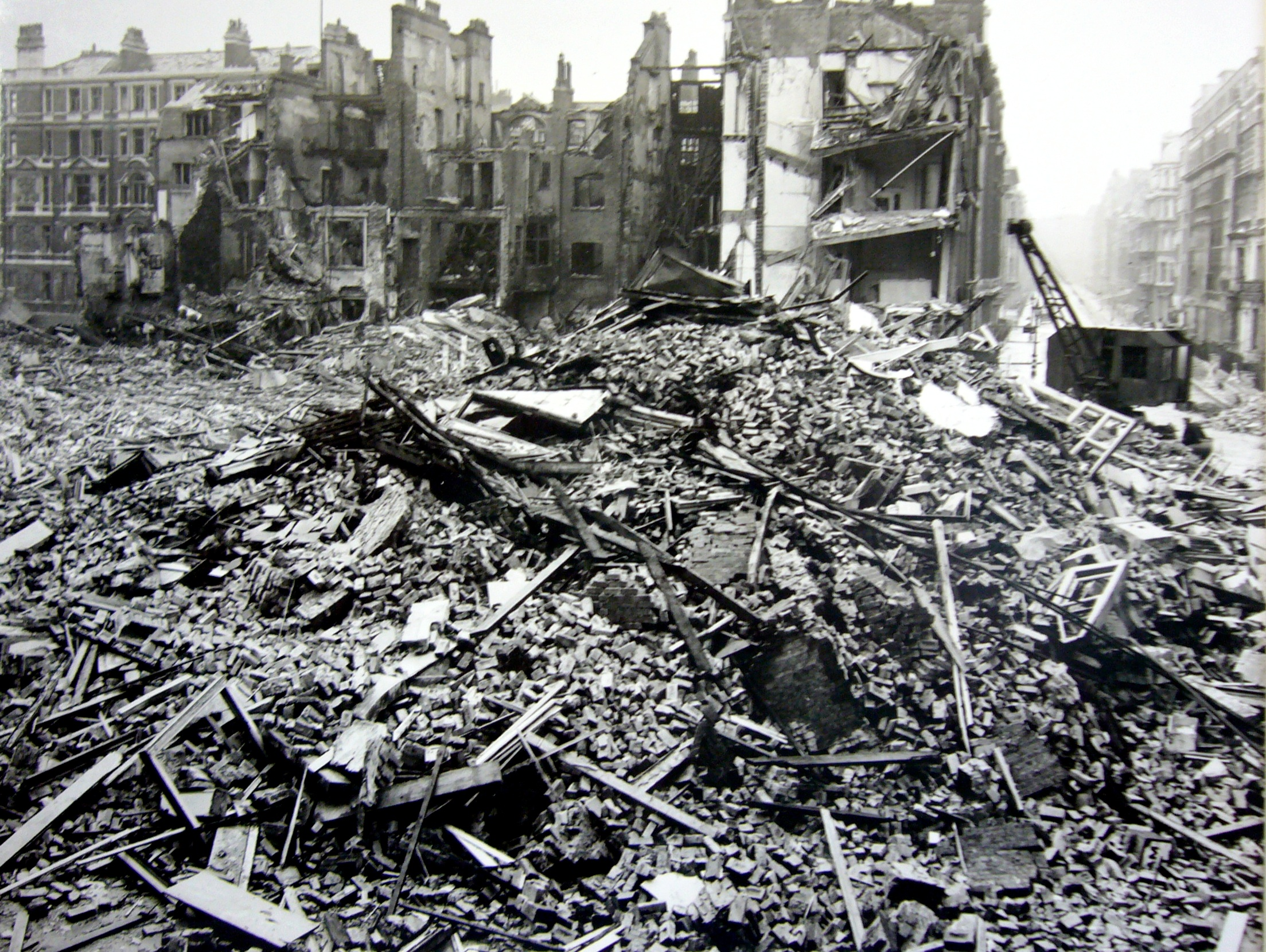 Extensive bomb and blast damage to Hallam Street and Duchess Street during the Blitz, Westminster, London 1940